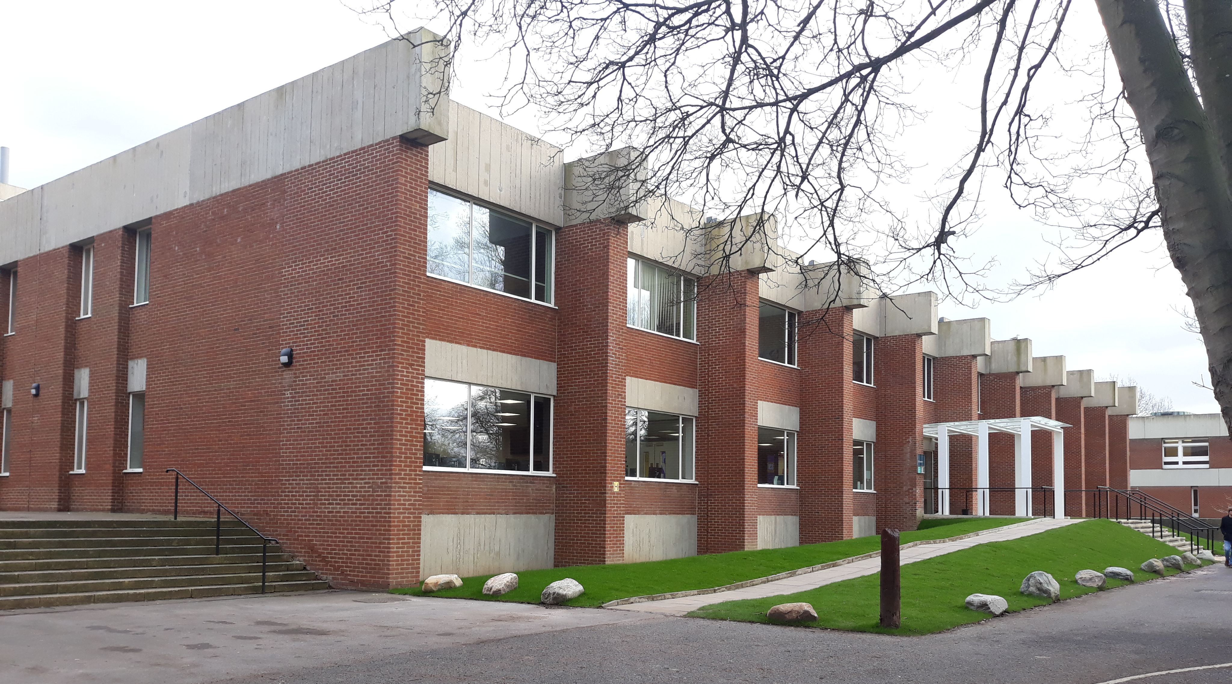 Student life Centre